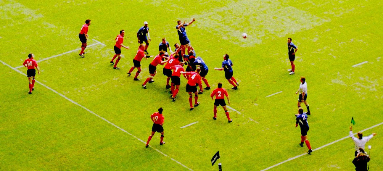 A classic attacking line-out. France threaten on the Welsh 5m. Six Nations Championship en:2004, Millennium Stadium, Cardiff I took this. GWO